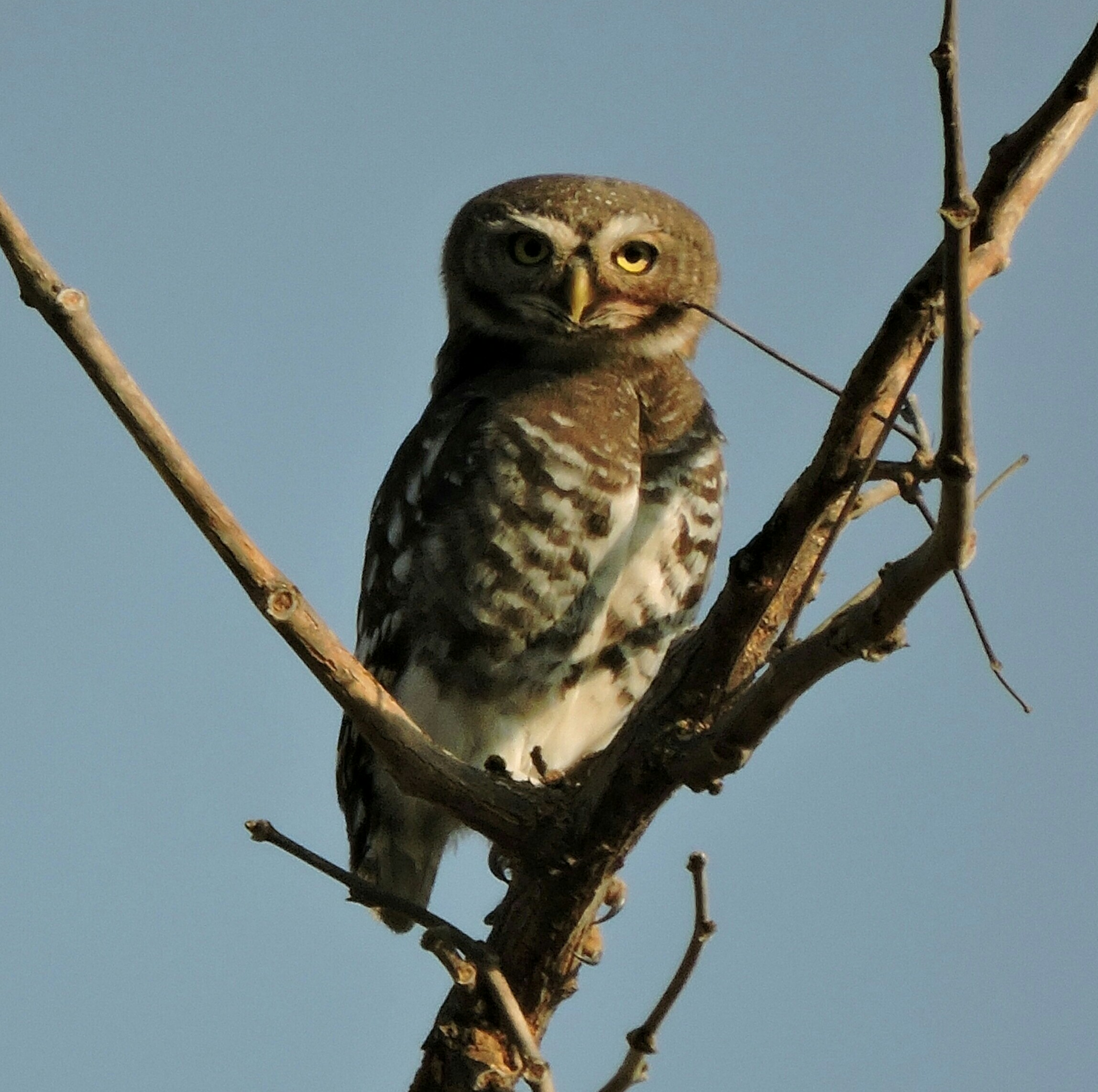 A Forest owlet perched on a tree in Melghat Tiger reserve